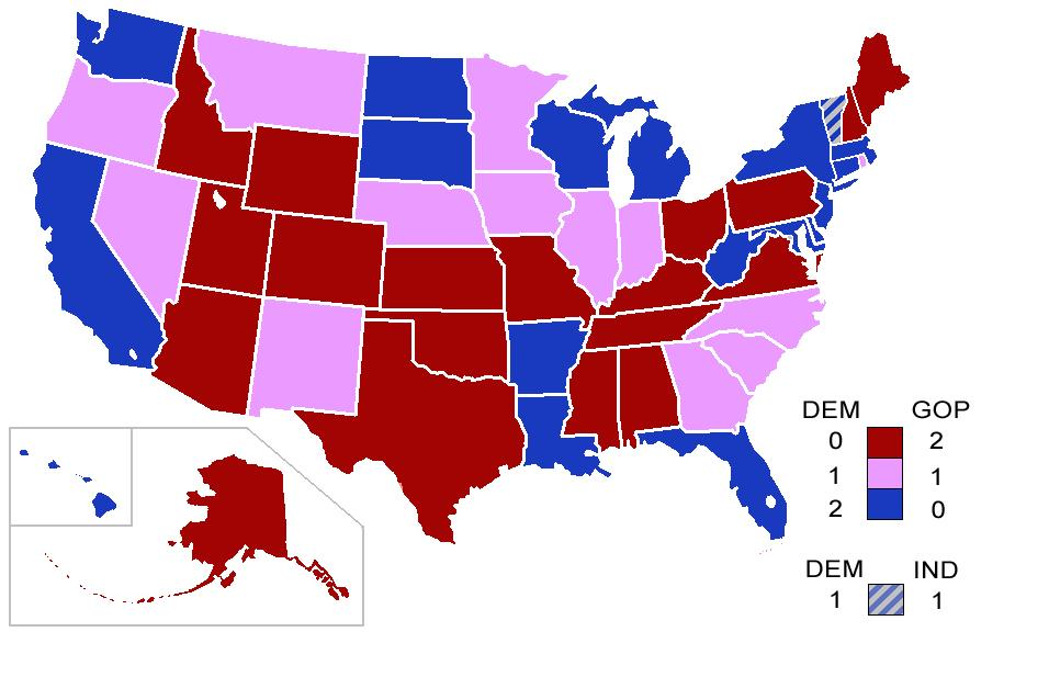 109th United States Congress' Senate composition by party.